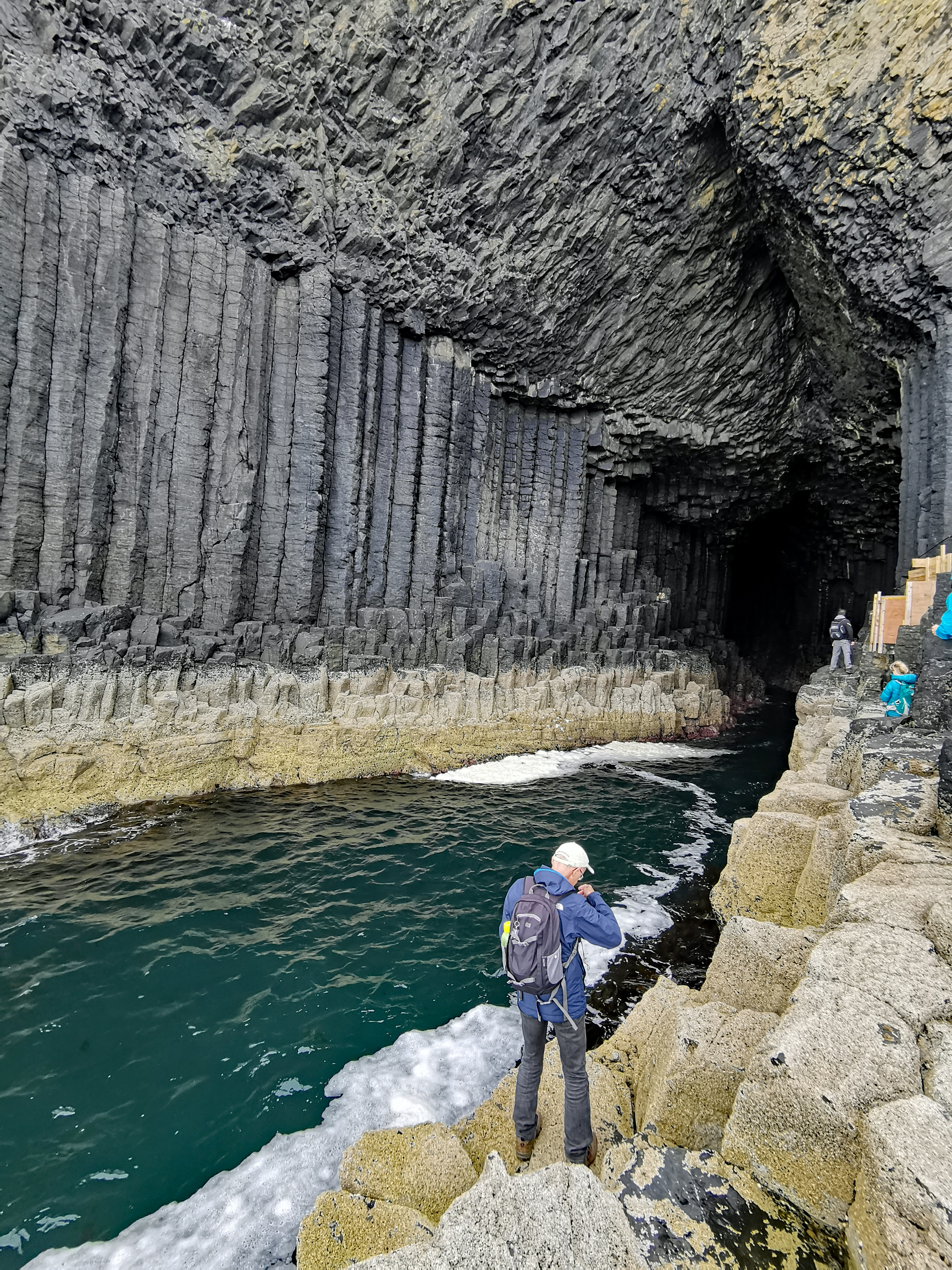 Staffa (Inner Hebrides, Scotland, UK)